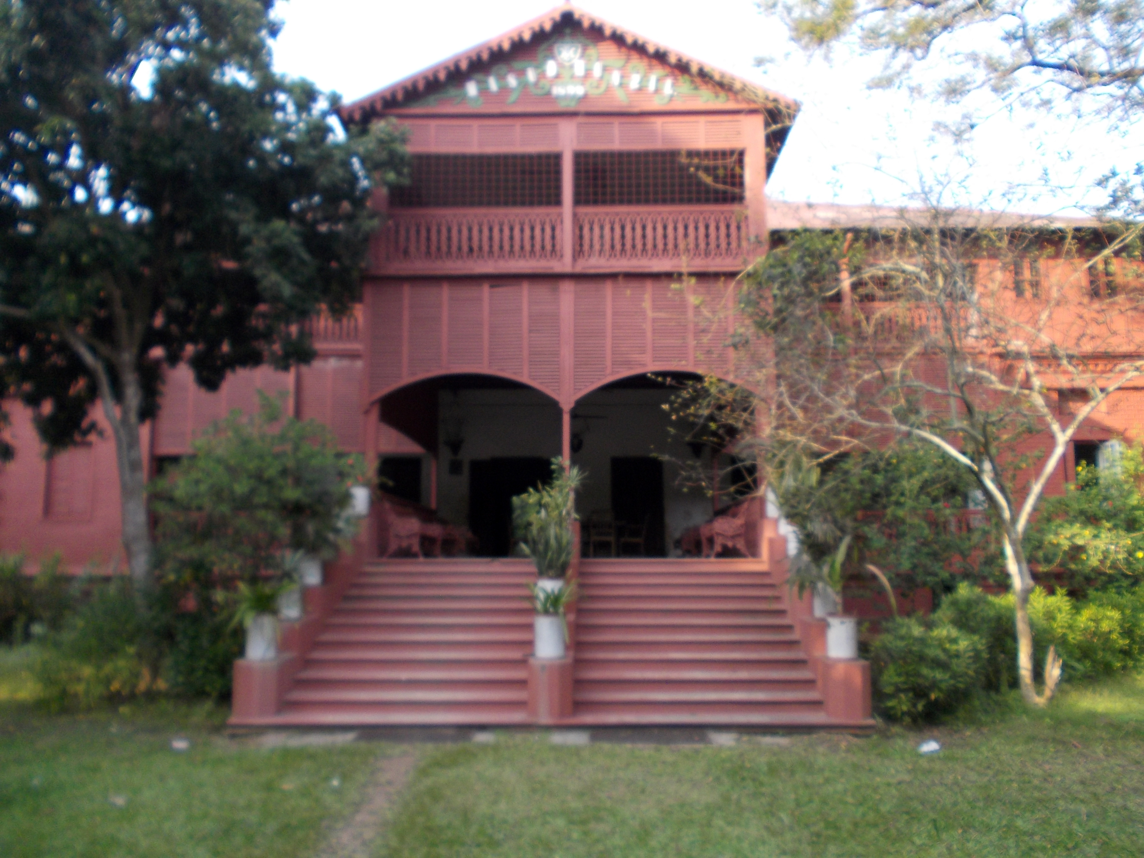 Korotia Jamidar Bari, Tangail